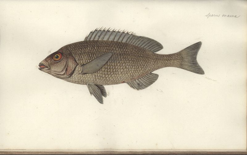 Drawing of Spicara maena used for Marcus Elieser Bloch, Naturgeschichte der ausländischen Fische, Fünfter Theil, Berlin 1791, Taf. CCLXX.